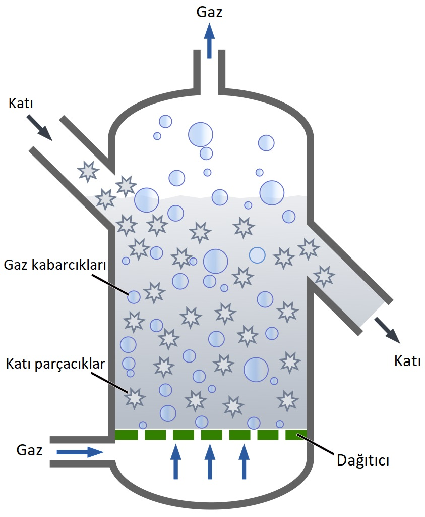 Basic Diagram of a Fluidized Bed Reactor